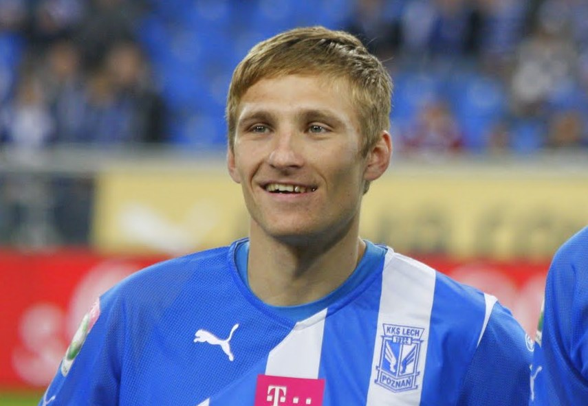 Belarusian association football player Syarhey Kryvets